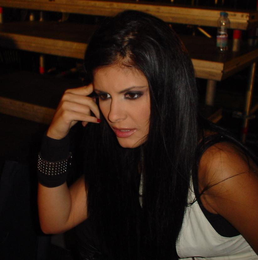 Bulgarian singer Anelia.